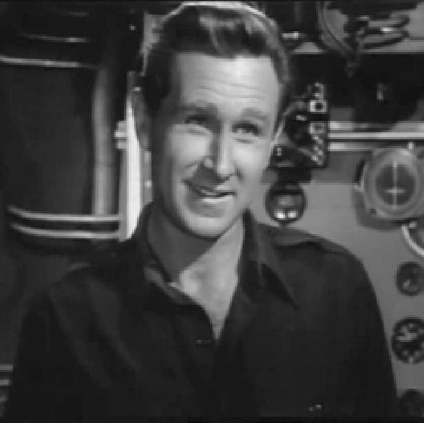 Lloyd Bridges in Rocketship X-M (cropped screenshot)